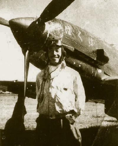 Sadao Kagawa (Kim Jong Ryol) with Ki-61 in Smatra